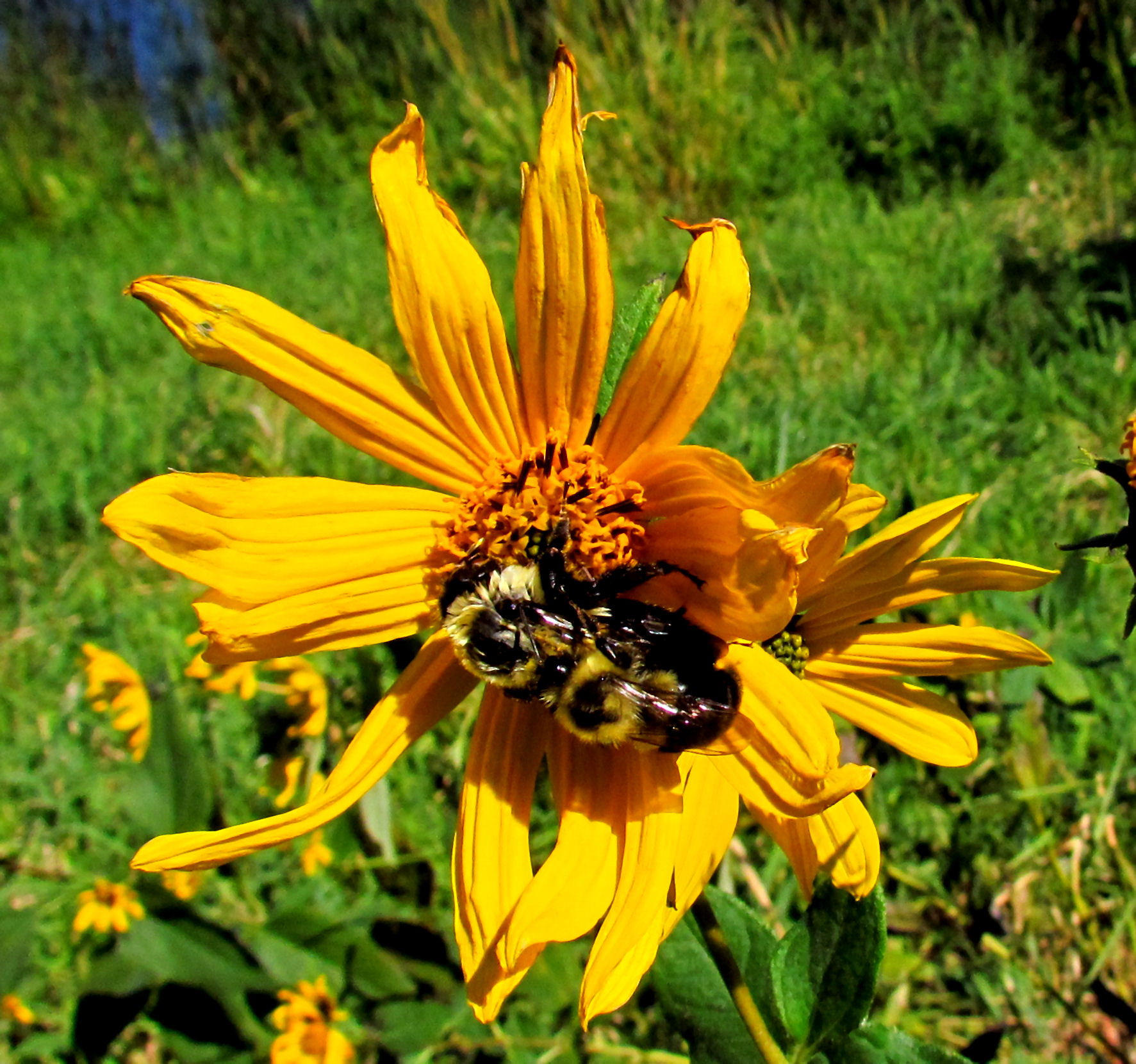 Common Eastern Bumble Bee (Bombus impatiens), queen and drone mating on Jeruslame Artichoke, Ottawa, Ontario, Canada